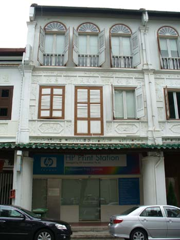 The former home of Gan Eng Seng at 87 Amoy Street, Singapore.